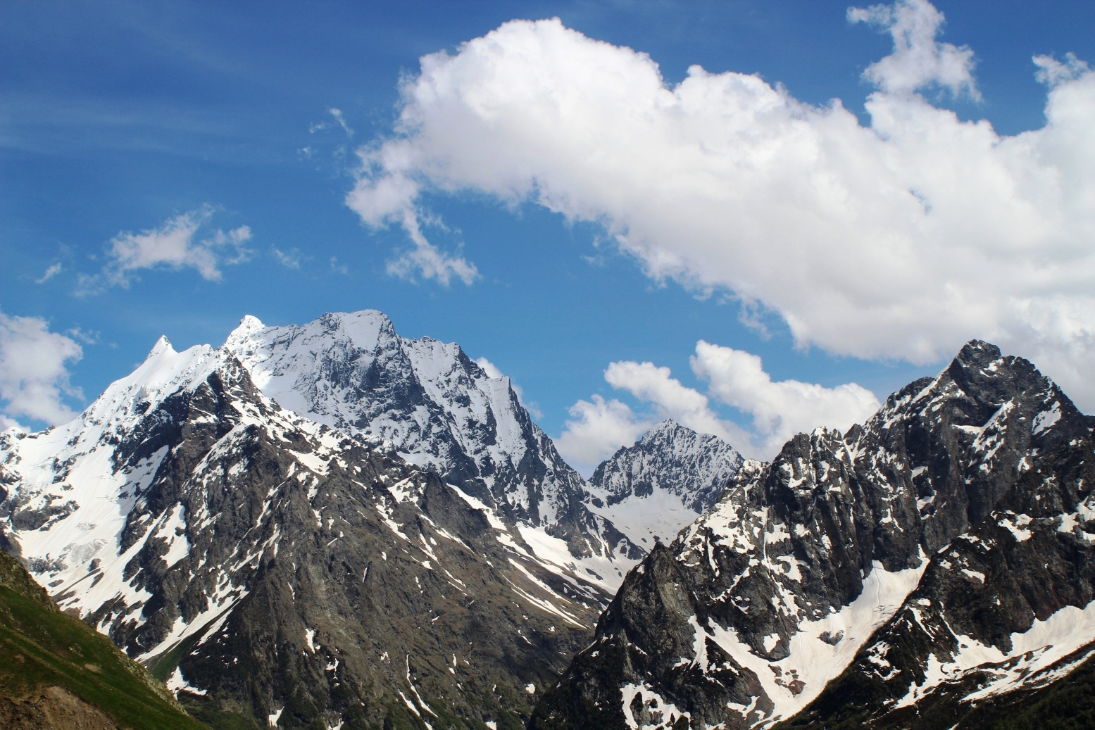 2016 Dombay-Ulgen Mountain, Greater Caucasus, Abkhazia